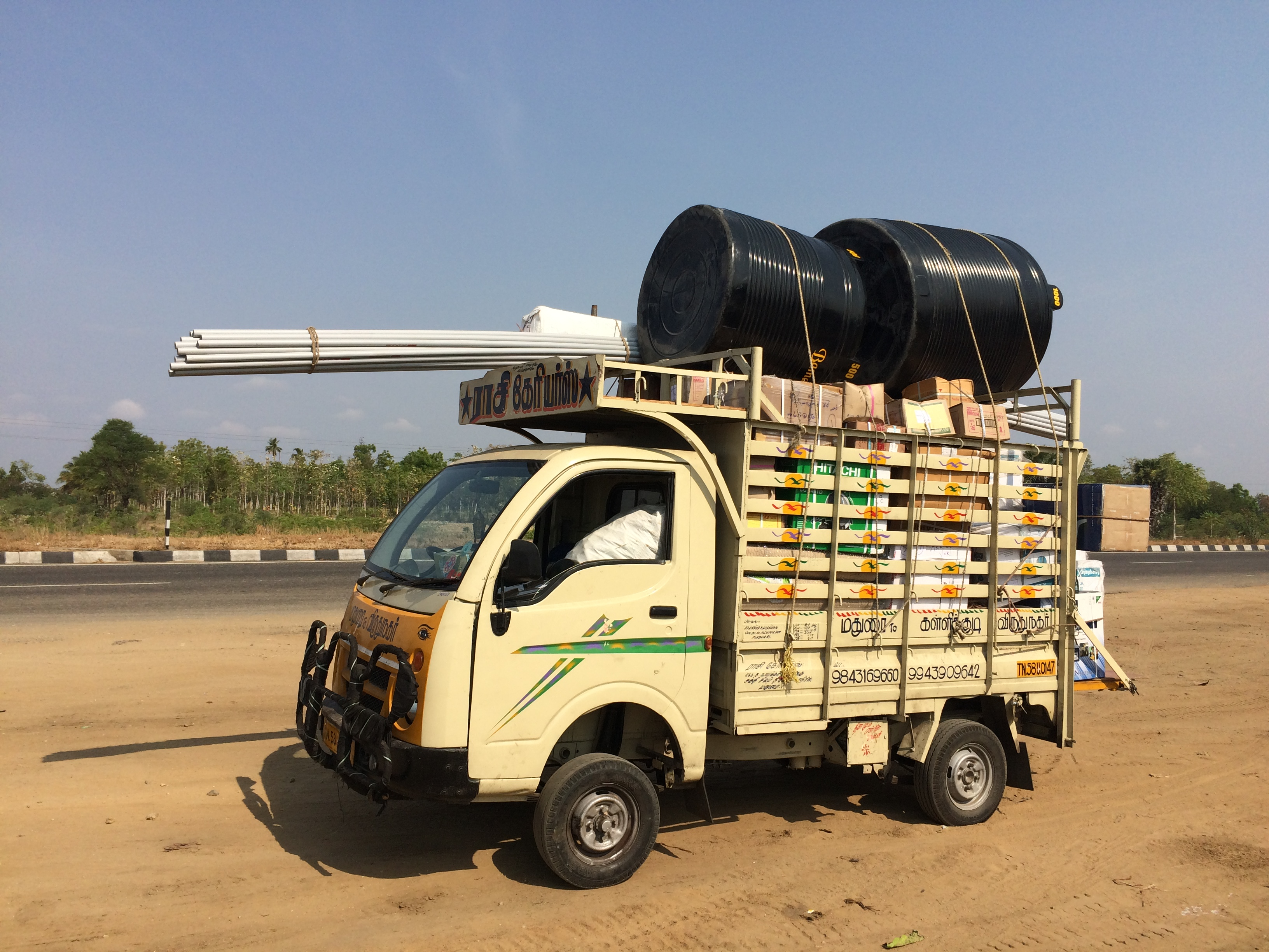 A Tata Ace mini truck with full load.